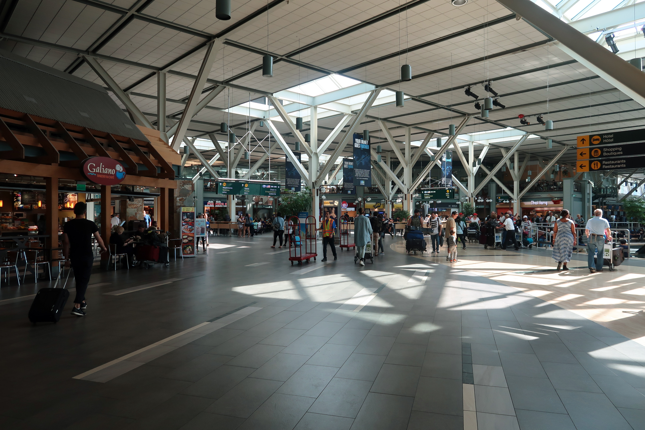 Interior of Vancouver International Airport